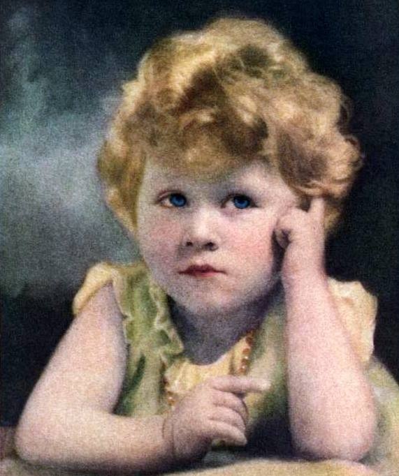 "Princess Lilibet". Derivative image from Time Magazine Cover, April 29, 1929.